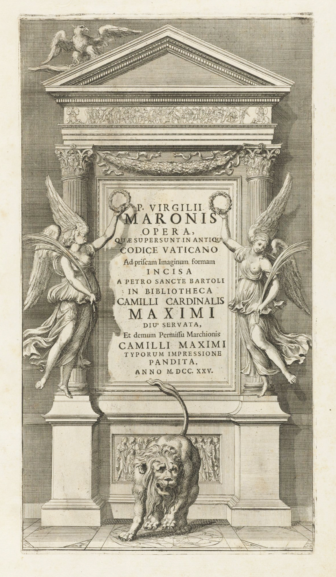 Title page from Virgilii Maronis Opera, Rome: 1725, by Pietro Santi Bartoli (1635-1700). Typ 725.25.194, Houghton Library, Harvard University